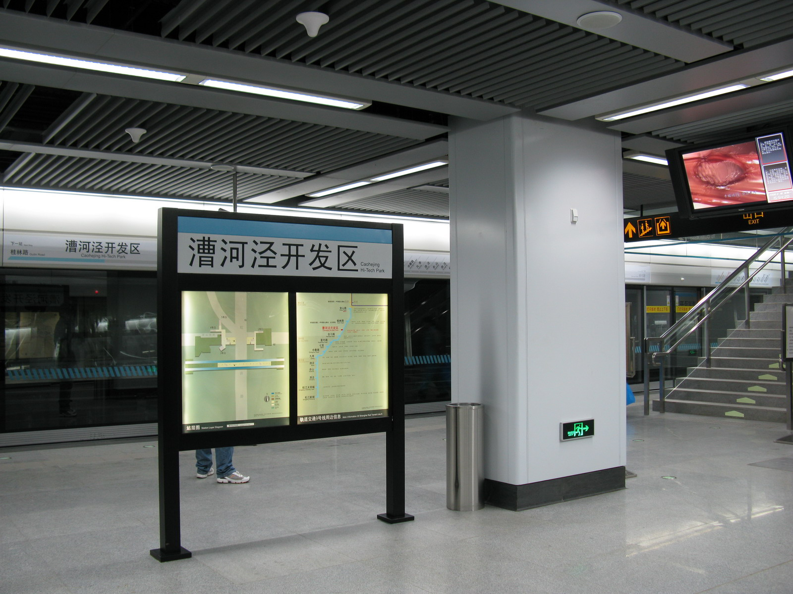 漕河泾开发区站 9号线月台 Line 9 Platform of Caohejing Hi-Tech Park Station